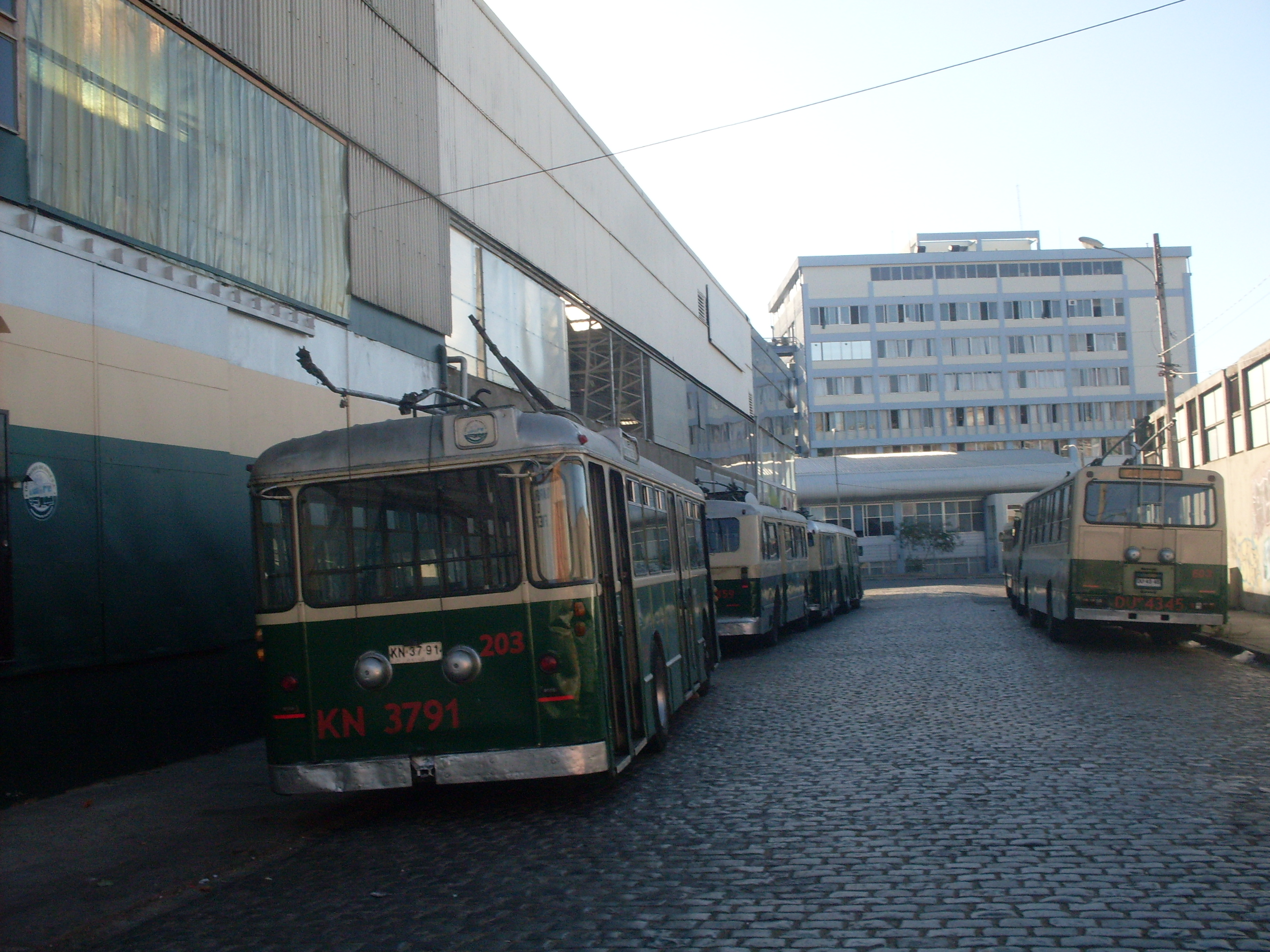 Trolleybuses parked in Valparaiso on Van Buren Street, outside the building that has been the trolleybus system's depot (garage) since mid-2008. Closest to the camera is ex-Schaffhausen (Switzerland) No. 203, a 1966 Berna-built trolleybus.